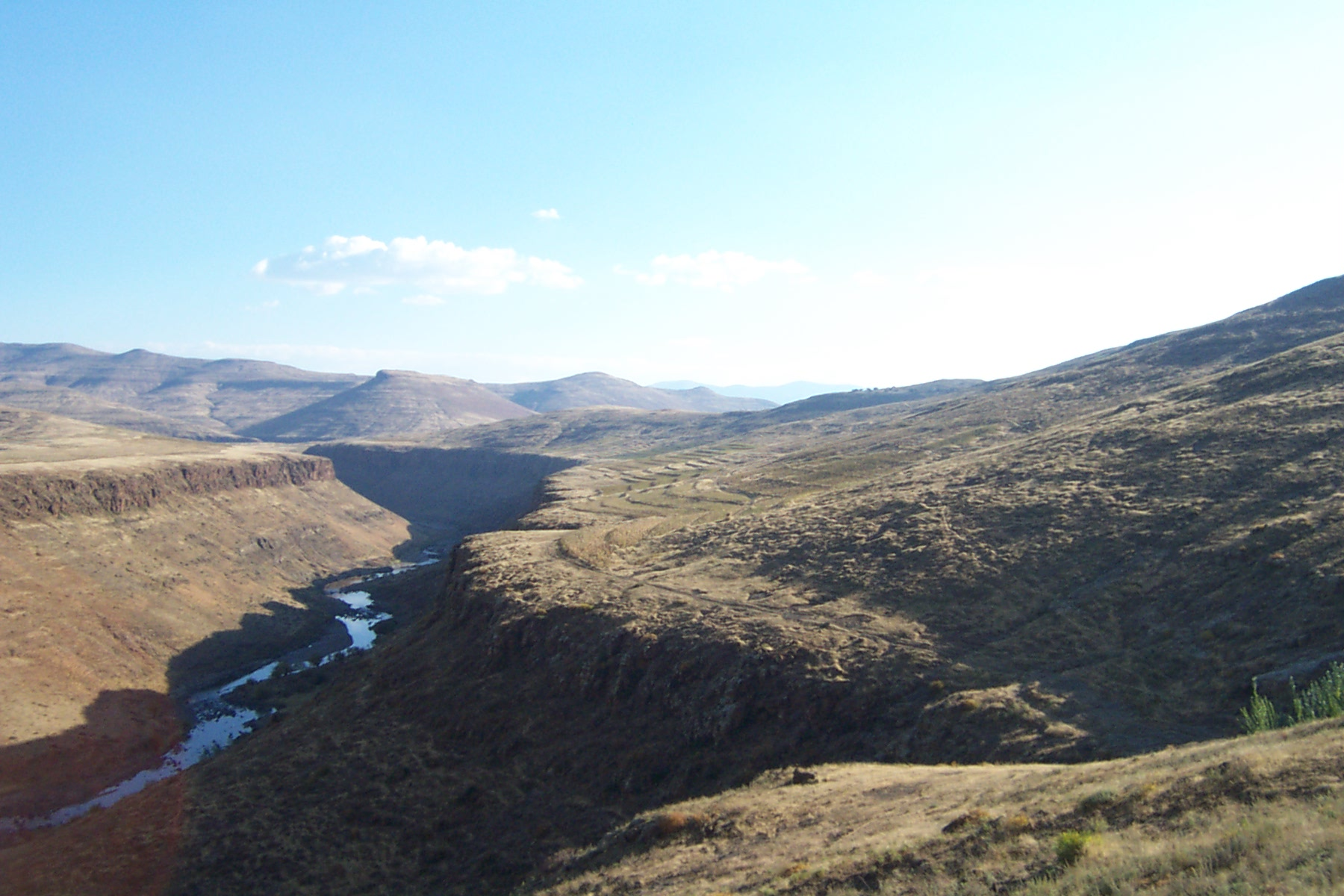 I took this picture while traveling in Mokhotlong. I do not reserve any rights to this picture.